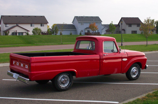 Rear view of 1966 Ford F-100 Truck.